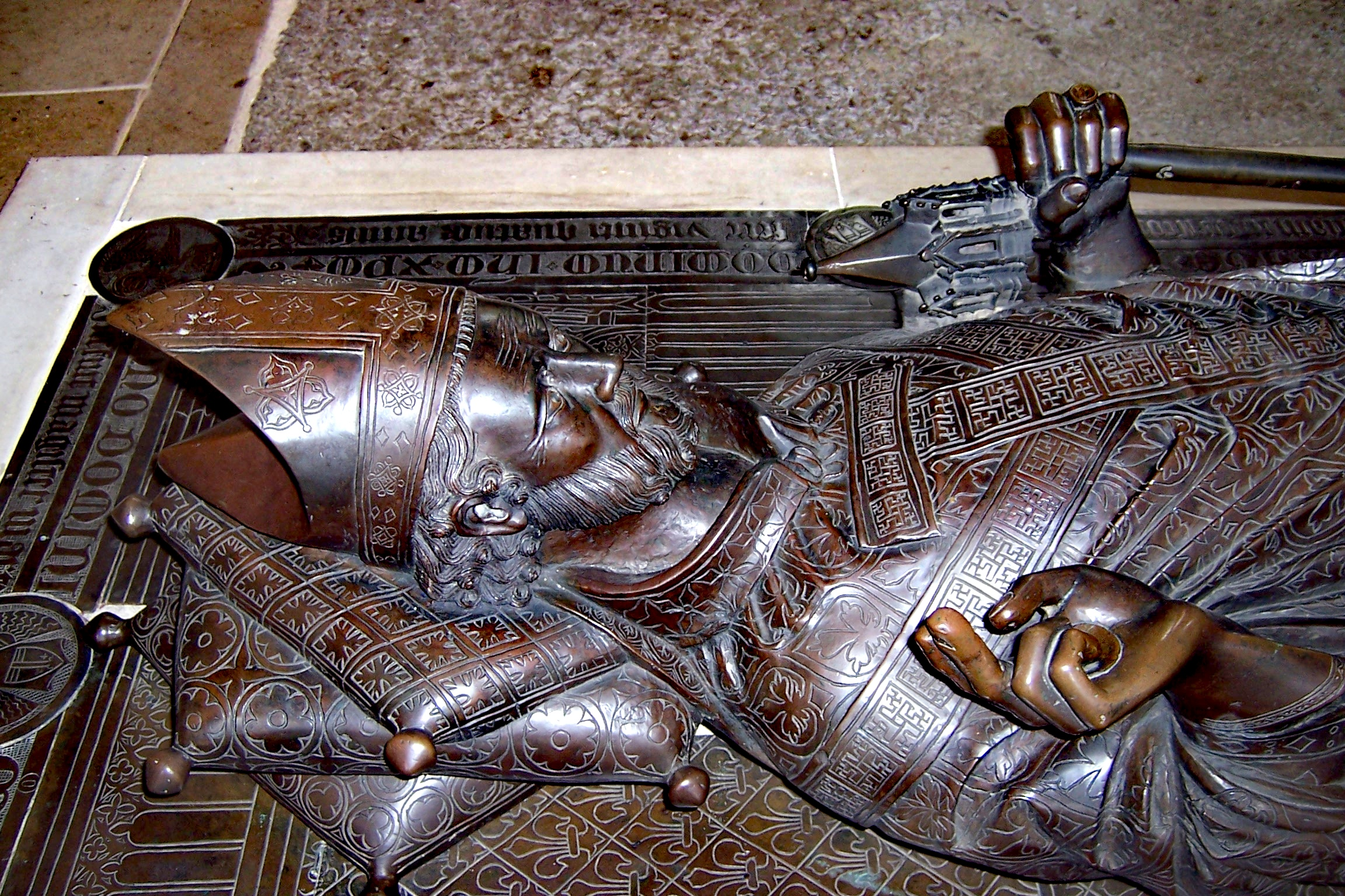 Detail of bronze tomb of Bishop Heinrich II. Bochholt, Lübeck, Dom / Cathedral